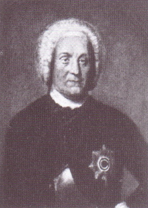 Portrait of Erhard Ernst von Röder (1665-1743)